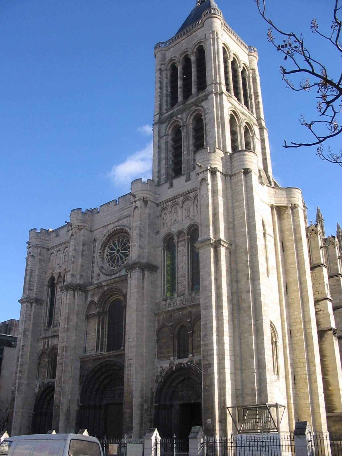 Saint-Denis royal cathedral, Seine Saint Denis, France.